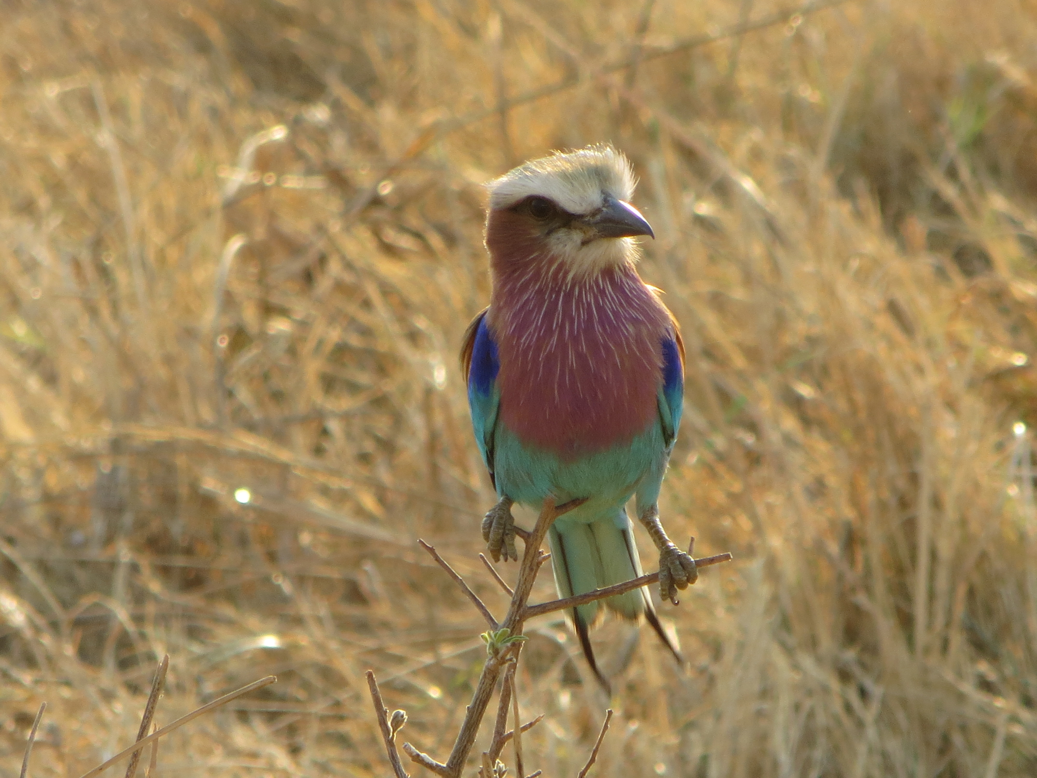 Chobe National Park, Botswana August, 26th, 2012